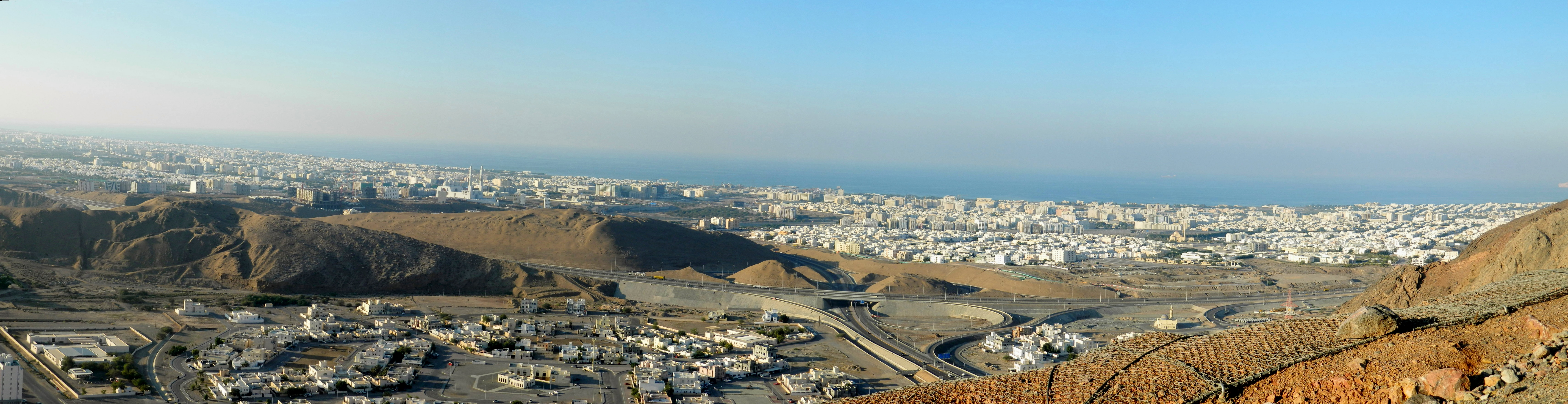 Greater Muscat City Panorama view. In the very left part of this photo one could find the Sultan Qaboos Grand Mosque, which is located in Bawshar wilaya (city). (The right end of this photo could be showing parts of Matrah wilaya (city)) Both Bawshar and Matrah i.e. Mutrah are districts and cities within Masqat governate. The actual Masqat city is a somewhat smaller city located to the right, and not shown in this photo (if I have understood it right).